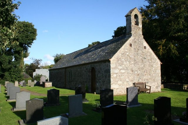 View across the graveyard at the west end of the St Mary at Llanfair yn y Cwmwd. The entrance is through the door you see on the left. I did try and have a look inside but the door was locked. If you look through the windows at first you think the church is lit by oil lamps but on closer inspection you can see light bulbs.